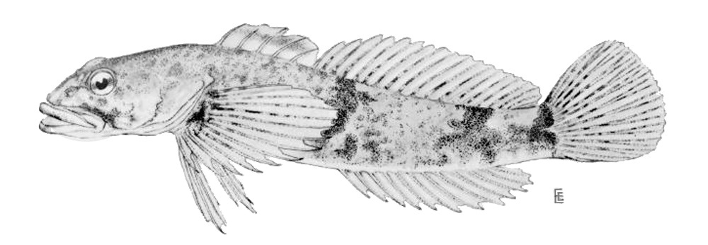 Mottled Sculpin (Cottus bairdii)